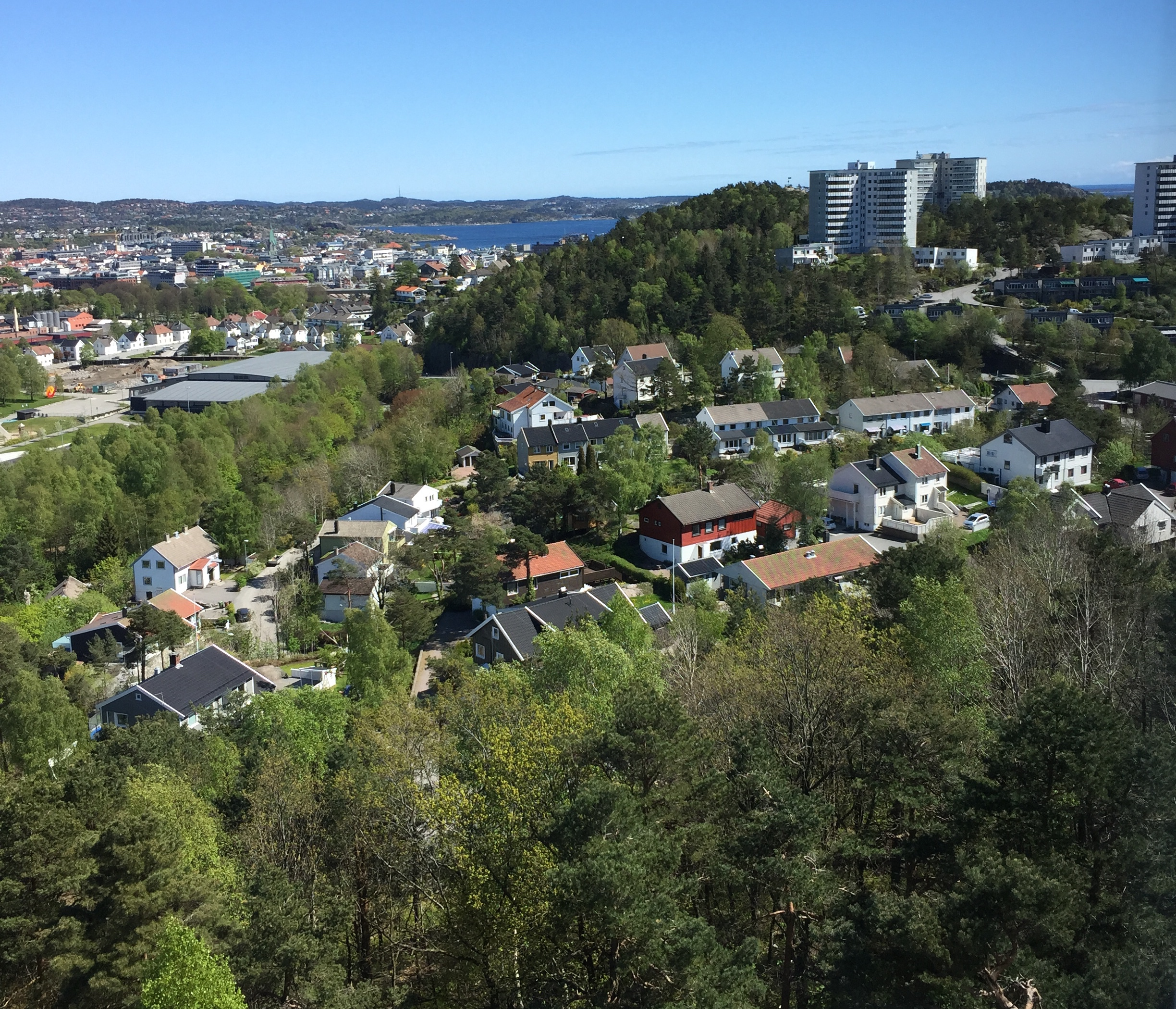 Kolsberg, Kristiansand